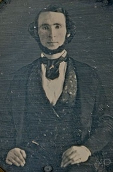 Daguerreotype of William Wallace Smith Bliss, circa 1848. Original sold at auction by in December 2011.